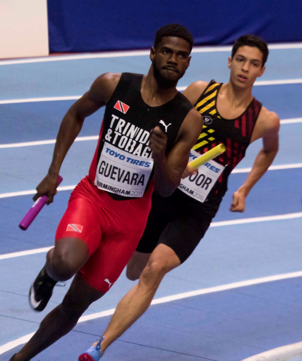 WK040362 finale 4x400m heren jonathan sacoor